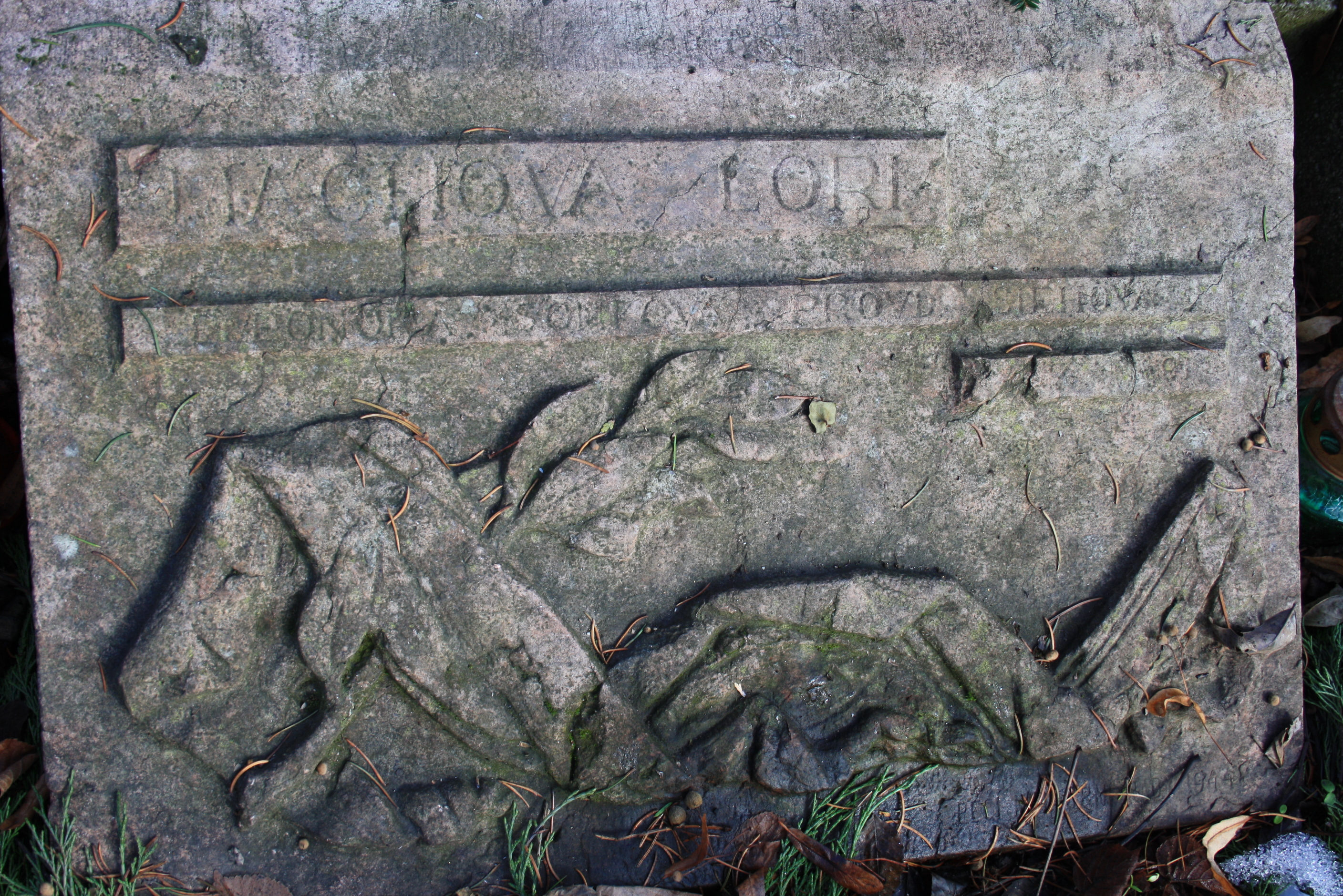 Grave of Eleonora Šomková, spouse of poet K. H. Mácha